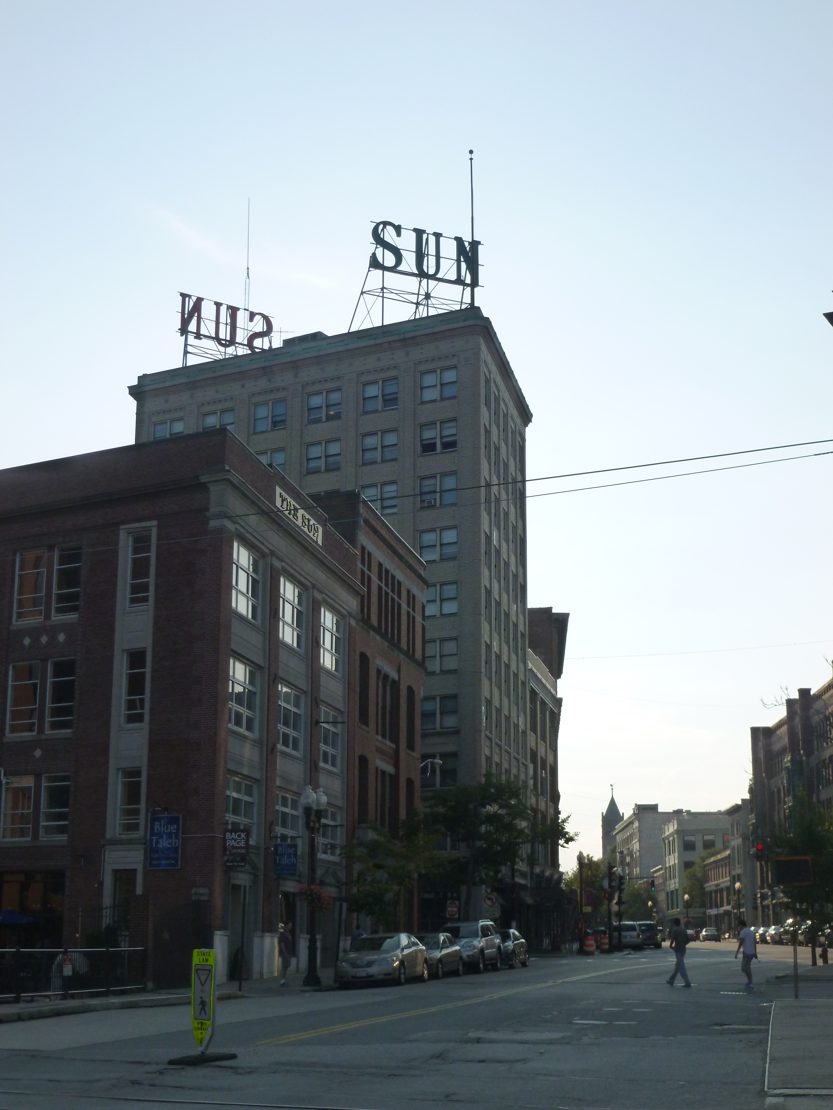 The Lowell Sun building, located at 491 Dutton Street, Lowell, Massachusetts. East and north sides of building shown, as viewed from the east along East Merrimack Street.